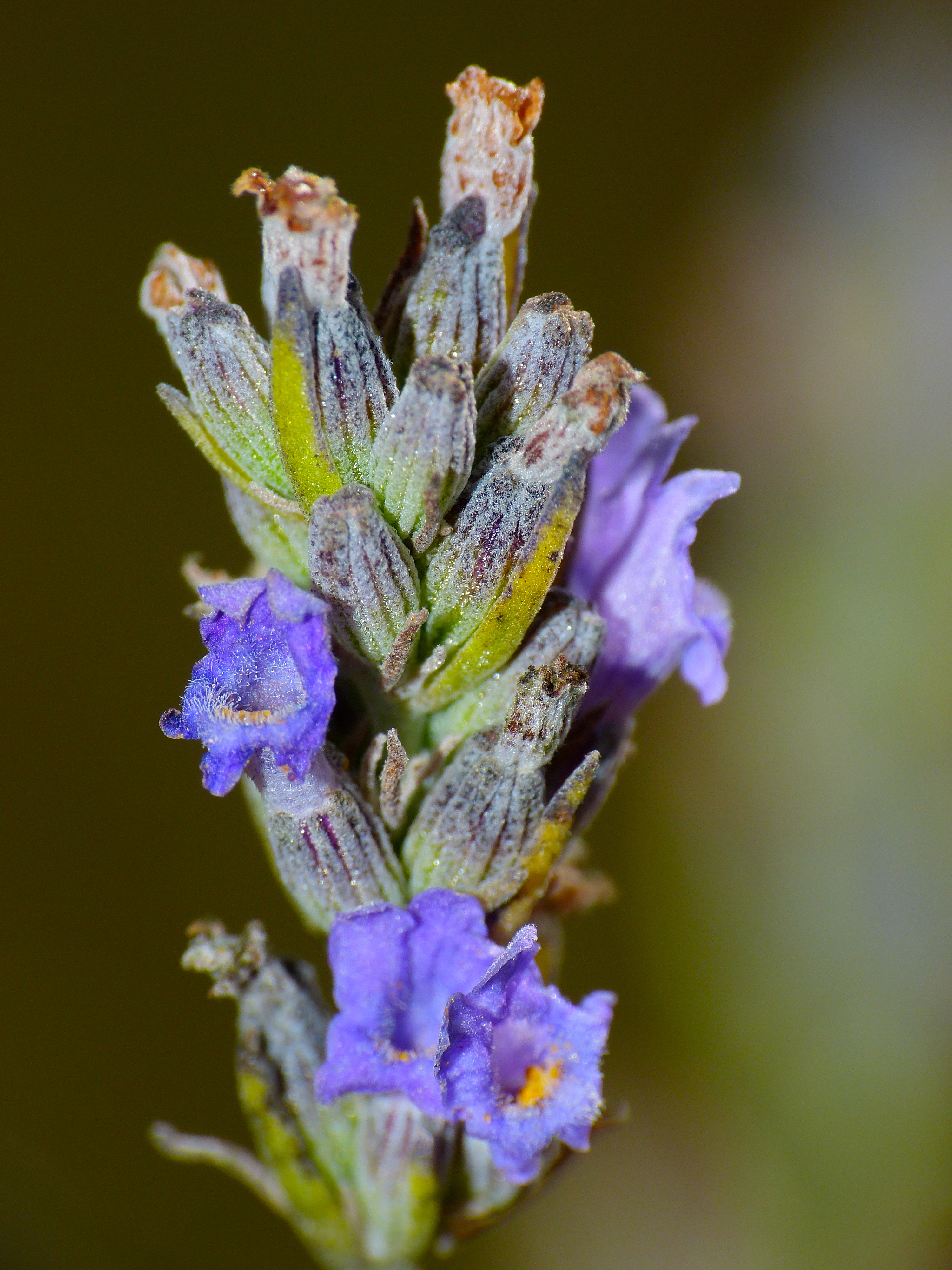 St Vallier-de-Thiey, Alpes-Maritimes, FRANCE